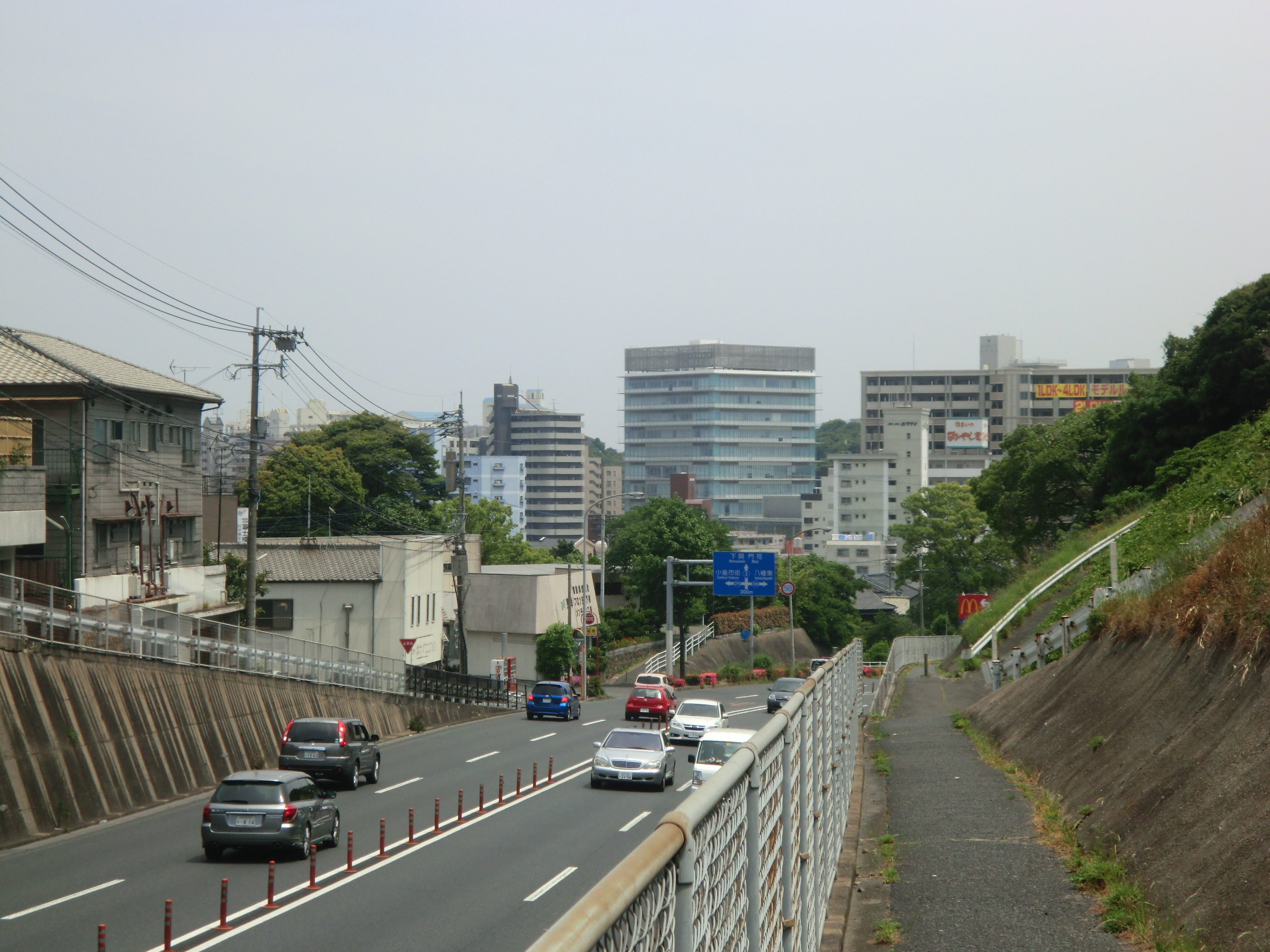 Townscape of Itouzu in Kitakyushu,Fukuoka,Japan.